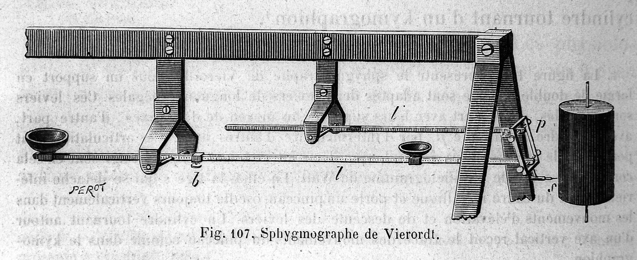 Wood engraving: Vierordt's sphygmograph, invented circa 1854. General Collections Keywords: instruments; measurement; Blood Pressure